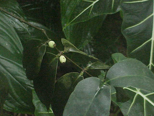 Species: Memecylon floribundum Family: Memecylaceae Image No. 2